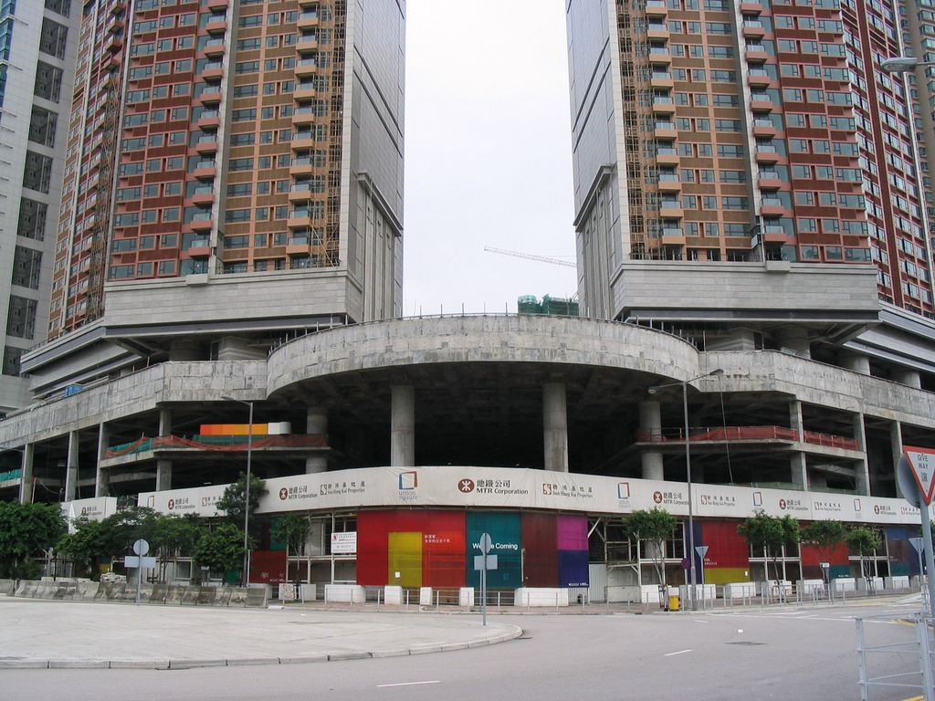 2005年7月的圓方商場正門入口 Main Entrance of Elements, July 2005